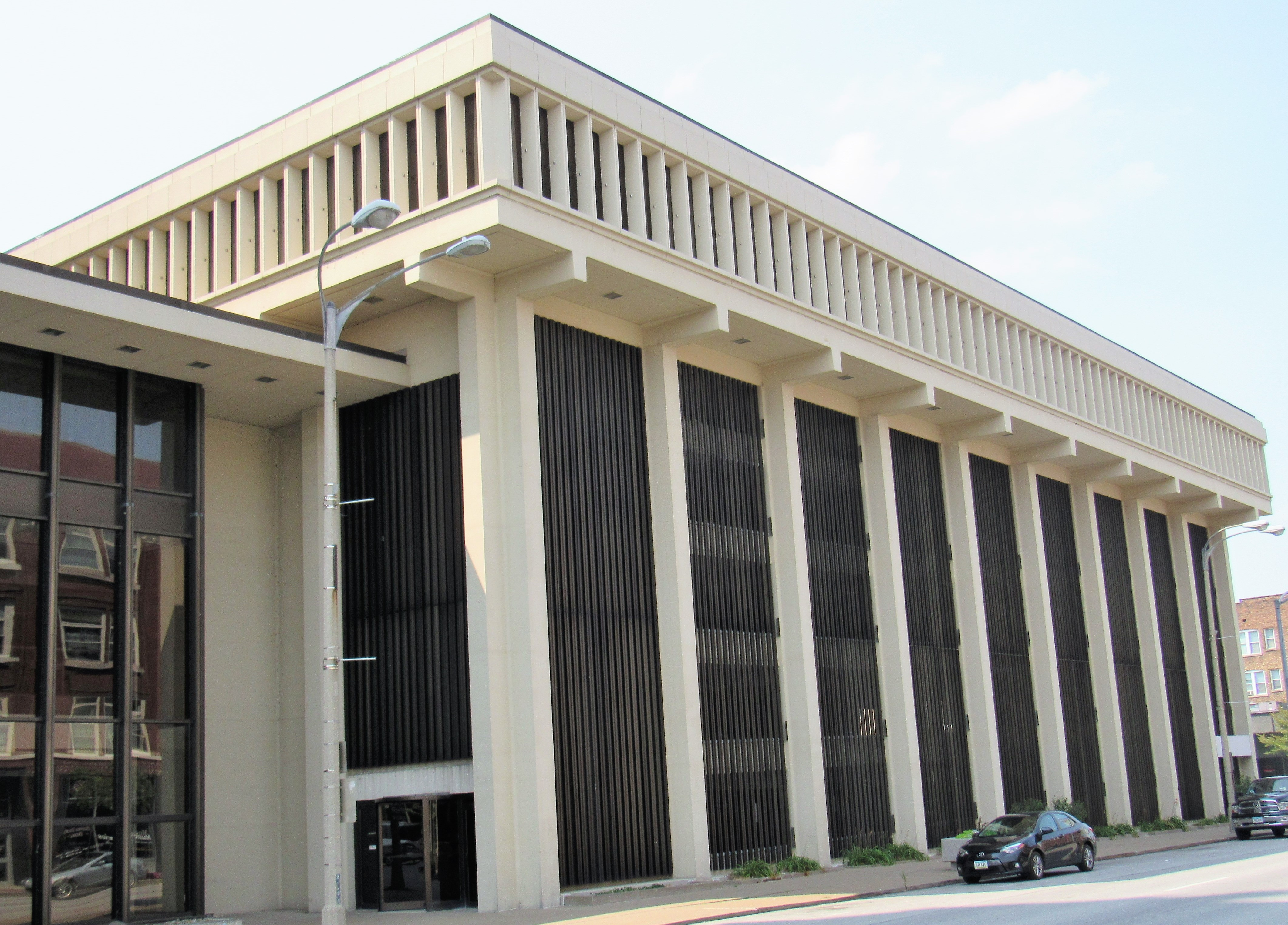 Davenport Bank and Trust in Davenport, Iowa.